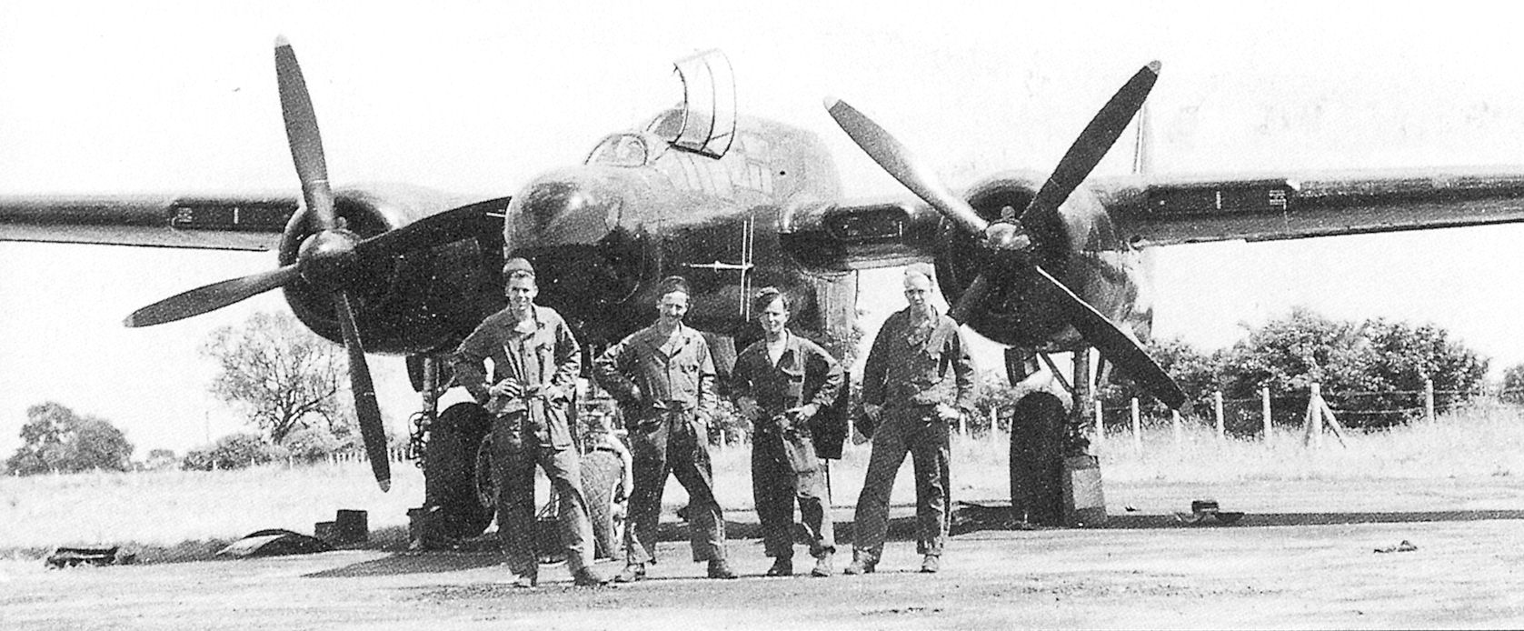 425th Night Fighter Squadron Coulommiers ALG France